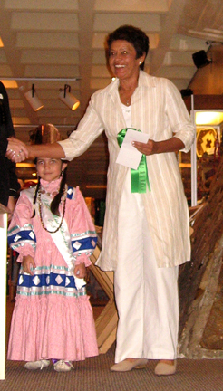 Virginia Stroud, United Keetoowah Band painter and author with Little Miss Cherokee 2007 at Park Hill, Oklahoma